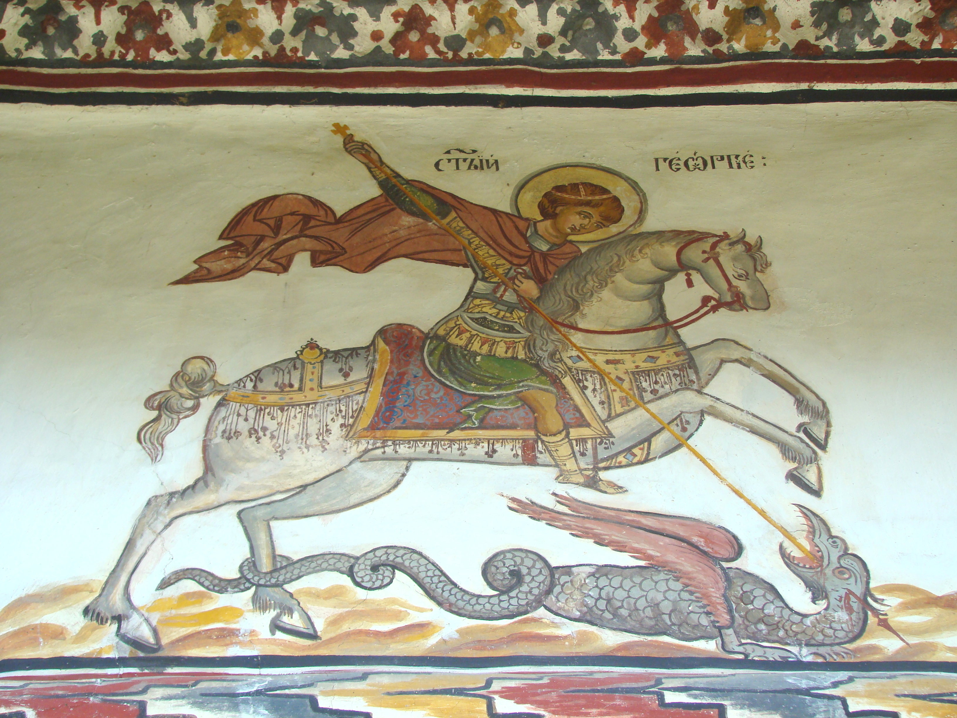 Archangels' church in Olănești, Vâlcea county, Romania